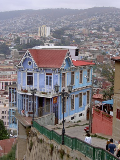 Maison sur une colline de Valparaíso au Chili - View of the restaurant Las Brujas in Valparaíso, Chile